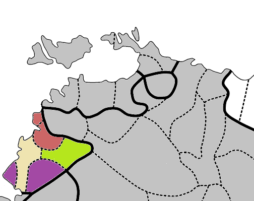 The Day languages (color), among the other non-Pama-Nyungan languages (grey) North Daly West Daly East Daly South Daly